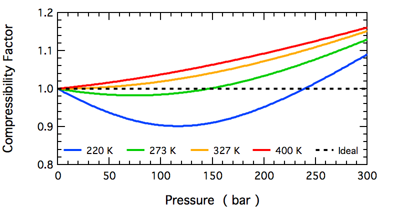 The pressure dependence of the compressibility factor for N2 at high temperatures, compared with that for an ideal gas. Created using data from the NIST Chemistry WebBook.